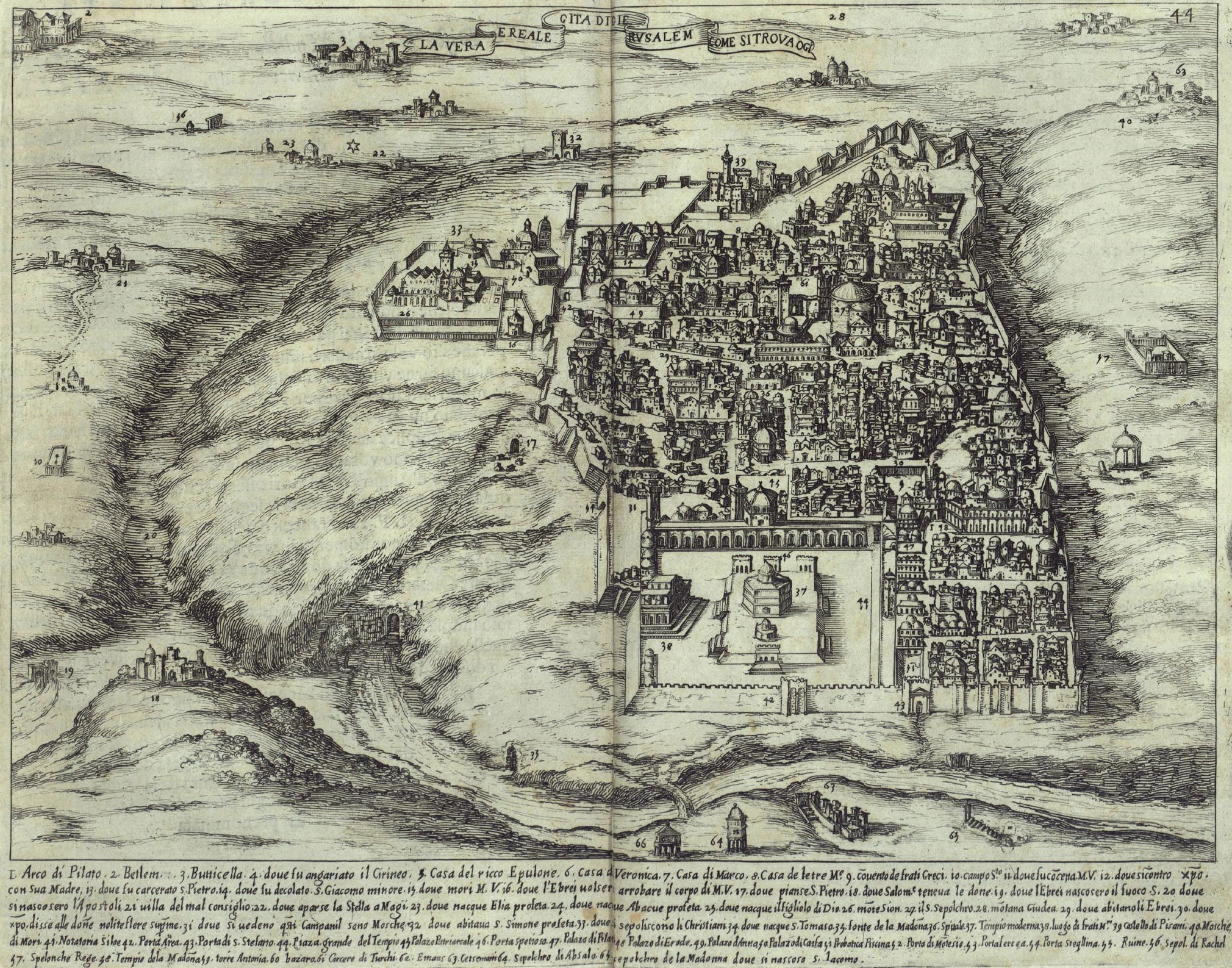 Jerusalem map in Italina, from Amico's book. Drawn after De Angelis map.